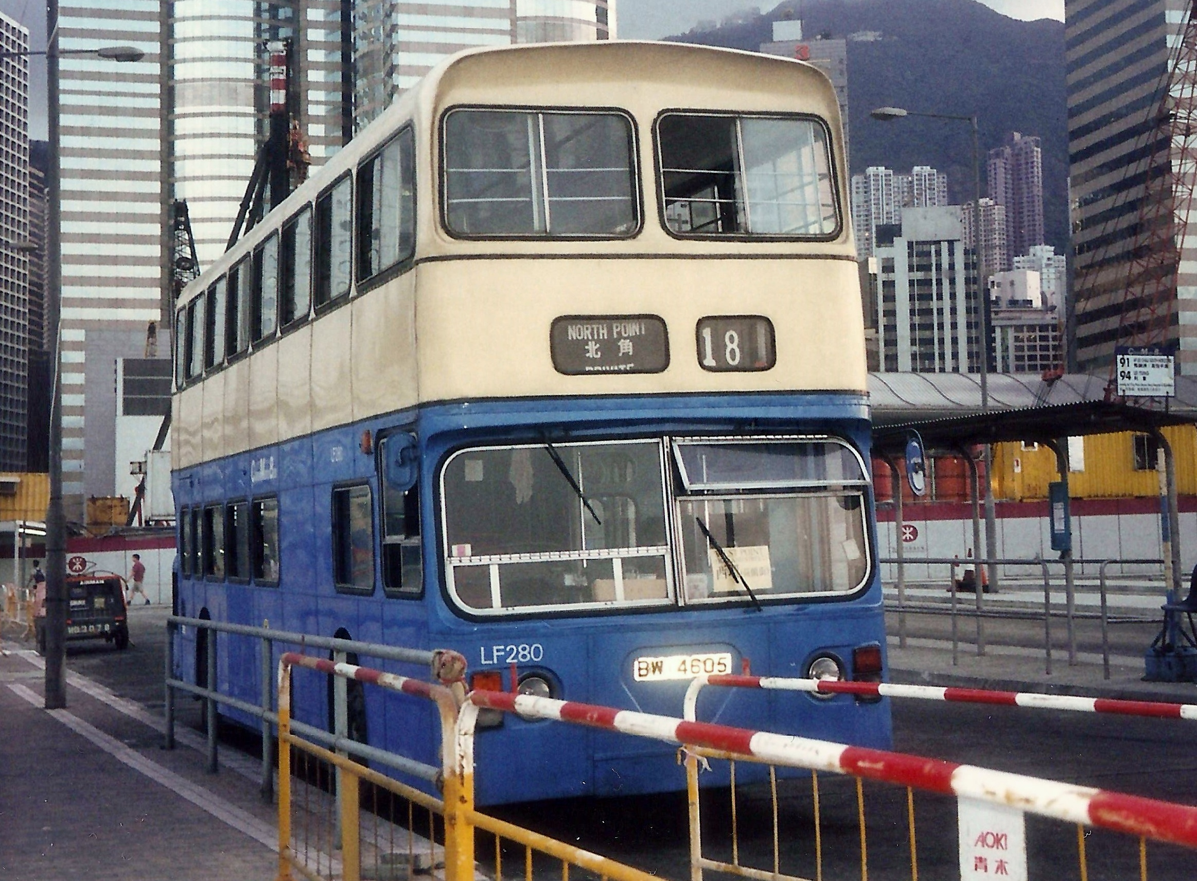 A Daimler Fleetline bus of China Motor Bus, numbered LF280, taken at Central Pier shortly before CMB lost its franchise in 1998.